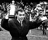 Ove Kindvall, Allsvensk topscorer and Guldbollen winner 1966